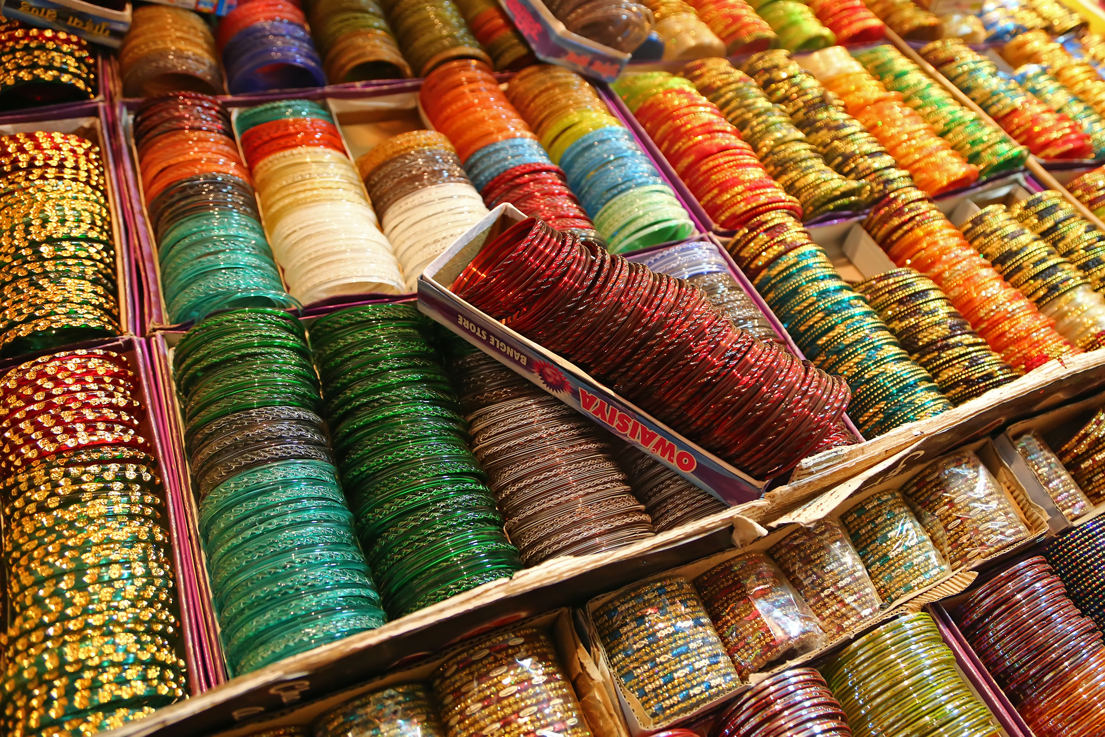 Bangles on display in Bangalore, India